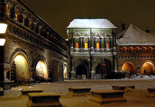 Night view of the Krutitsy metochion in Moscow.